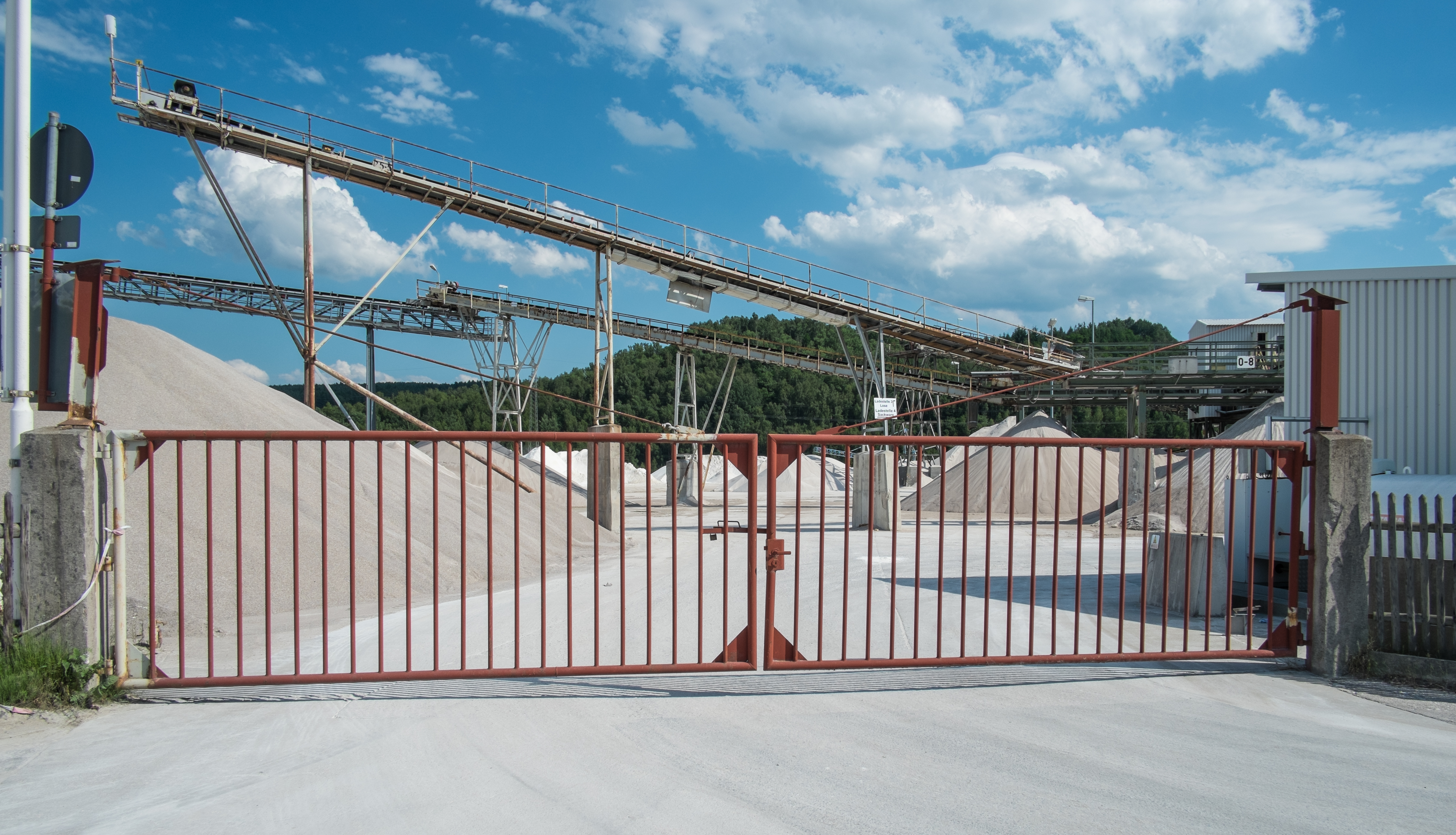 Kaolin mine, Schnaittenbach, district Amberg-Sulzbach, Bavaria, Germany